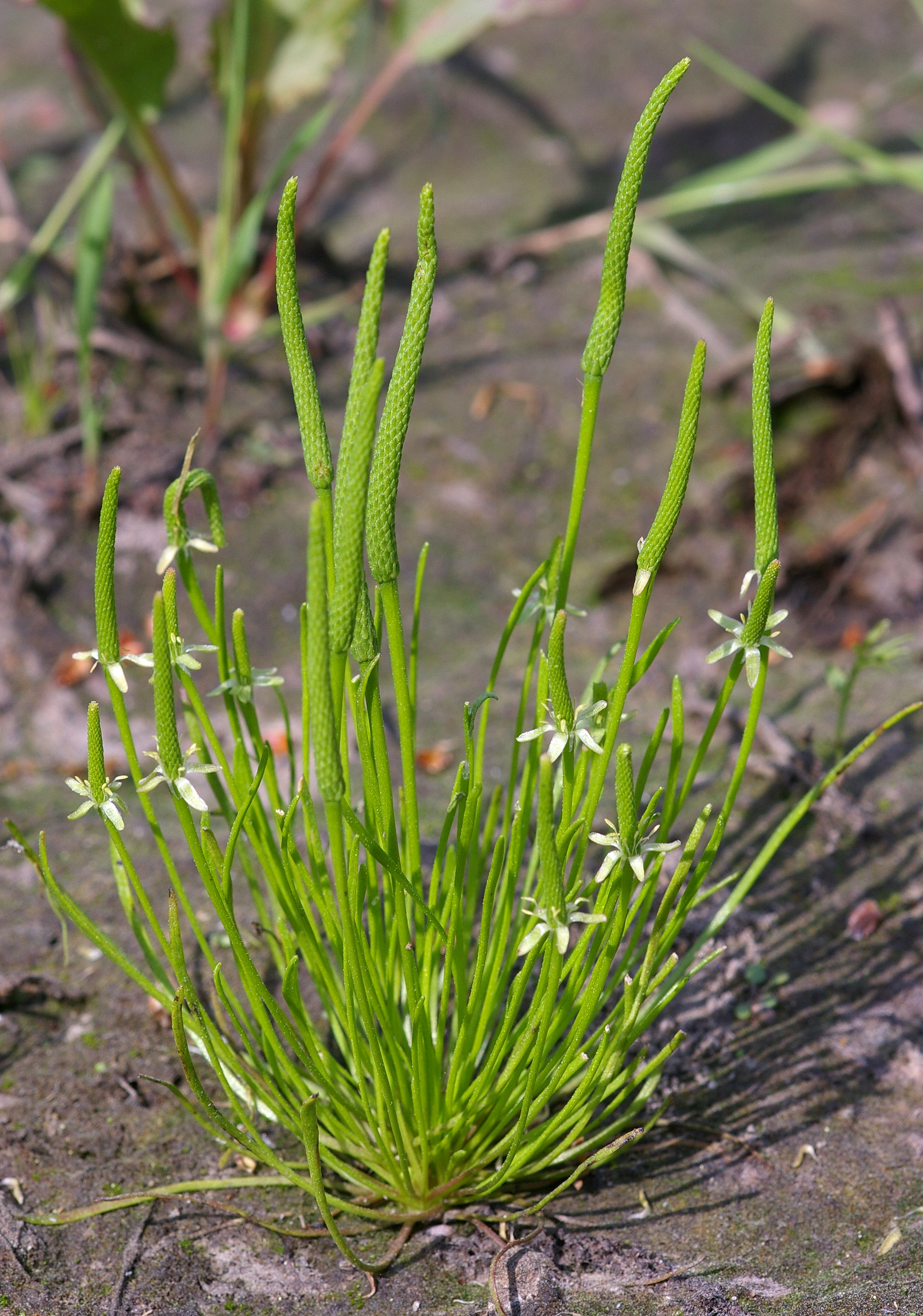 Habitus of flowering Myosurus minimus (Ranunculaceae).